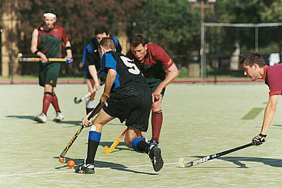 A field hockey game at Melbourne University hockey ground in July 2003.